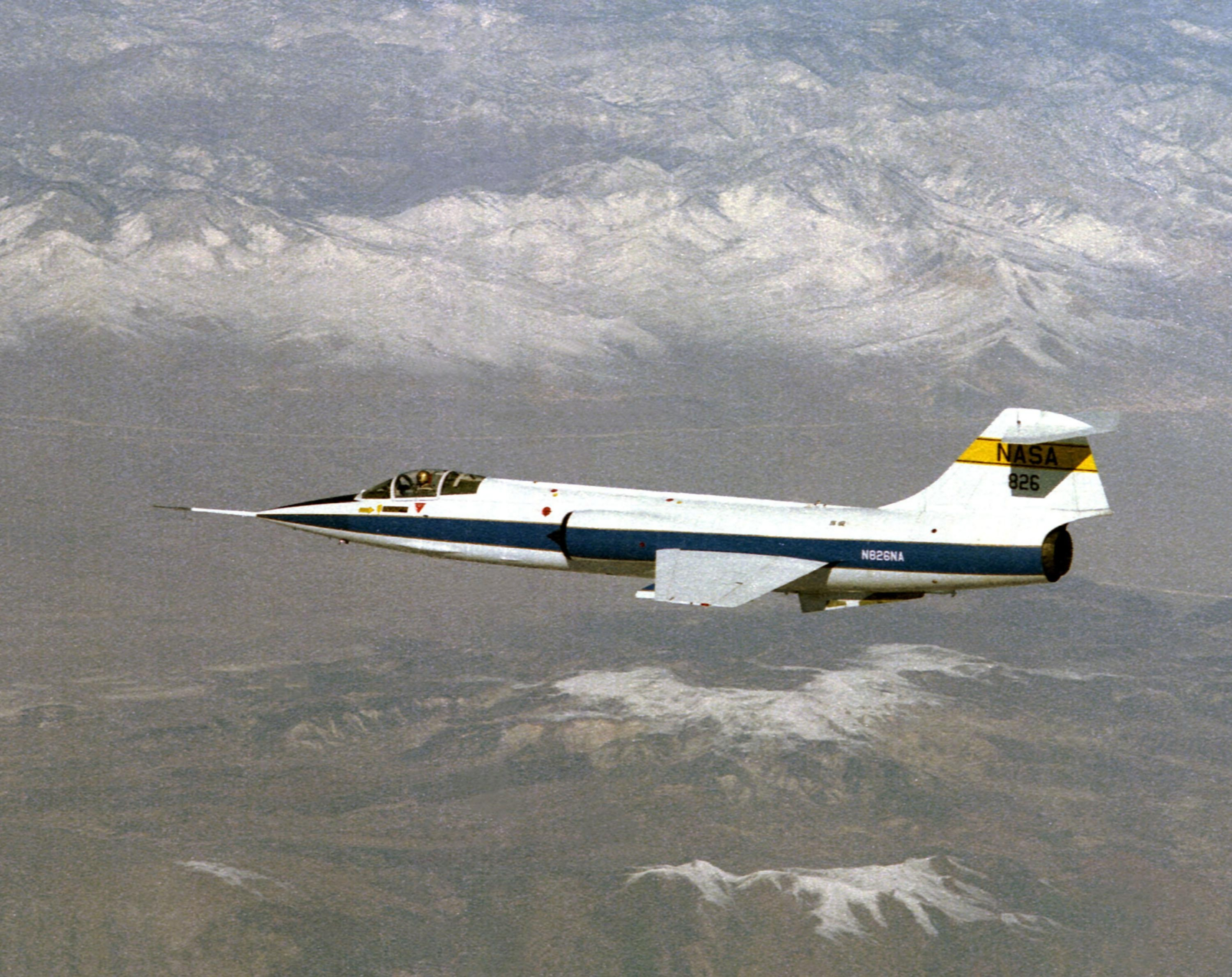 F-104G (N826NA) in flight over the Mojave Desert in January 1988. This F-104G was build in 1964 from FOKKER (Netherlands), member of "ARGE NORD" with S/N 8213 as version "RF-104G" for the German Air Force (Luftwaffe), Maiden flight was January 30. in 1964 codes as "KG+313" (KG=Fokker); In the LUFTWAFFE as EB+114 in AG52. Since 1967 under marks "24+64" iin WaSLw10. Modified to AWX-Standard (AWX= All weather interceptor) in 1971. Since 1971 in MFG1 (Marineflieger, German Navy Fighter). Sold in 1975 to NASA for aeronautical experiments at Dryden Flight Research Center, Edwards AFB, California. Last NASA flight February 3. 1994 as last NASA F-104. Preserved at Dryden Flight Research Center, Edwards, California from July 1995 on display at NASA Dryden Flight Research Facility in Visitor Center, Edwards, California (USA).